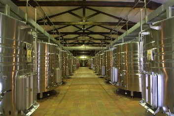 Vat Agassac